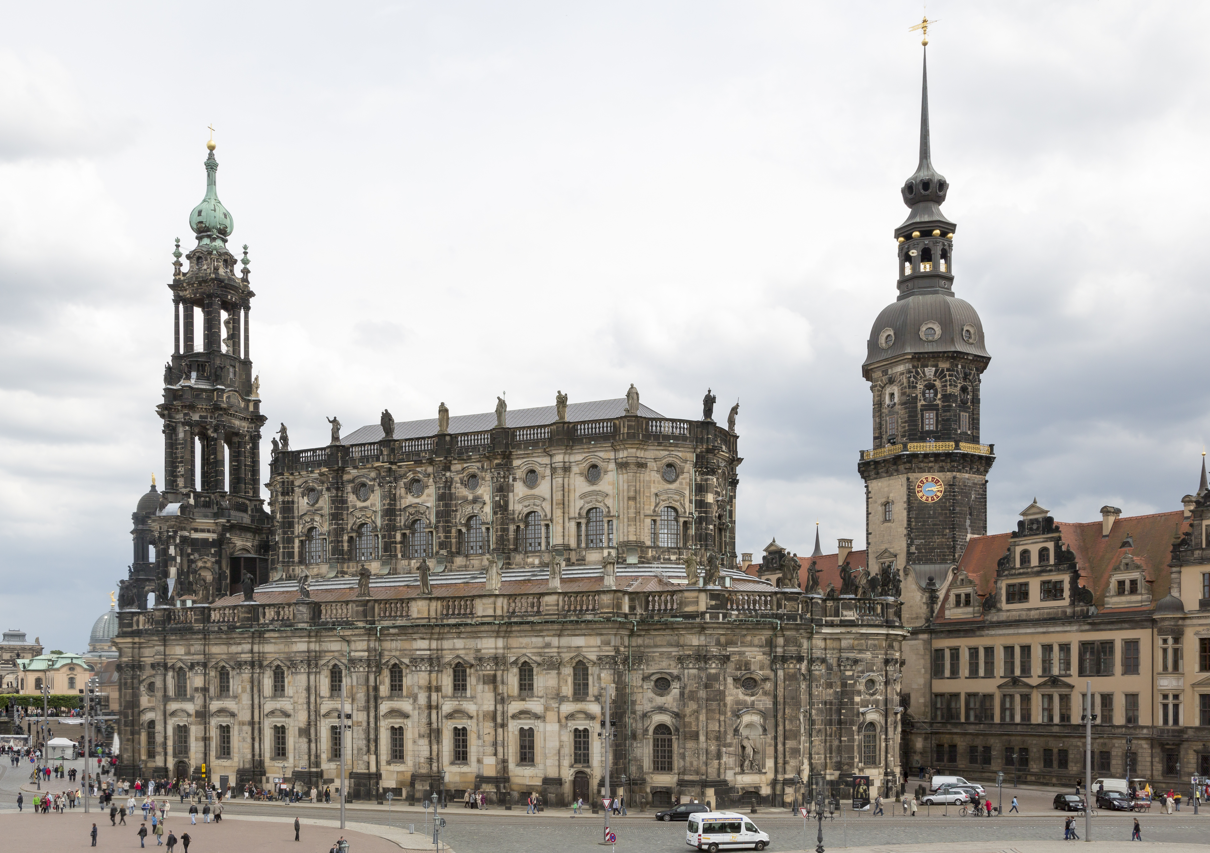 Dresden, Germany: Katholische Hofkirche (Cathedral Sanctissimae Trinitatis)